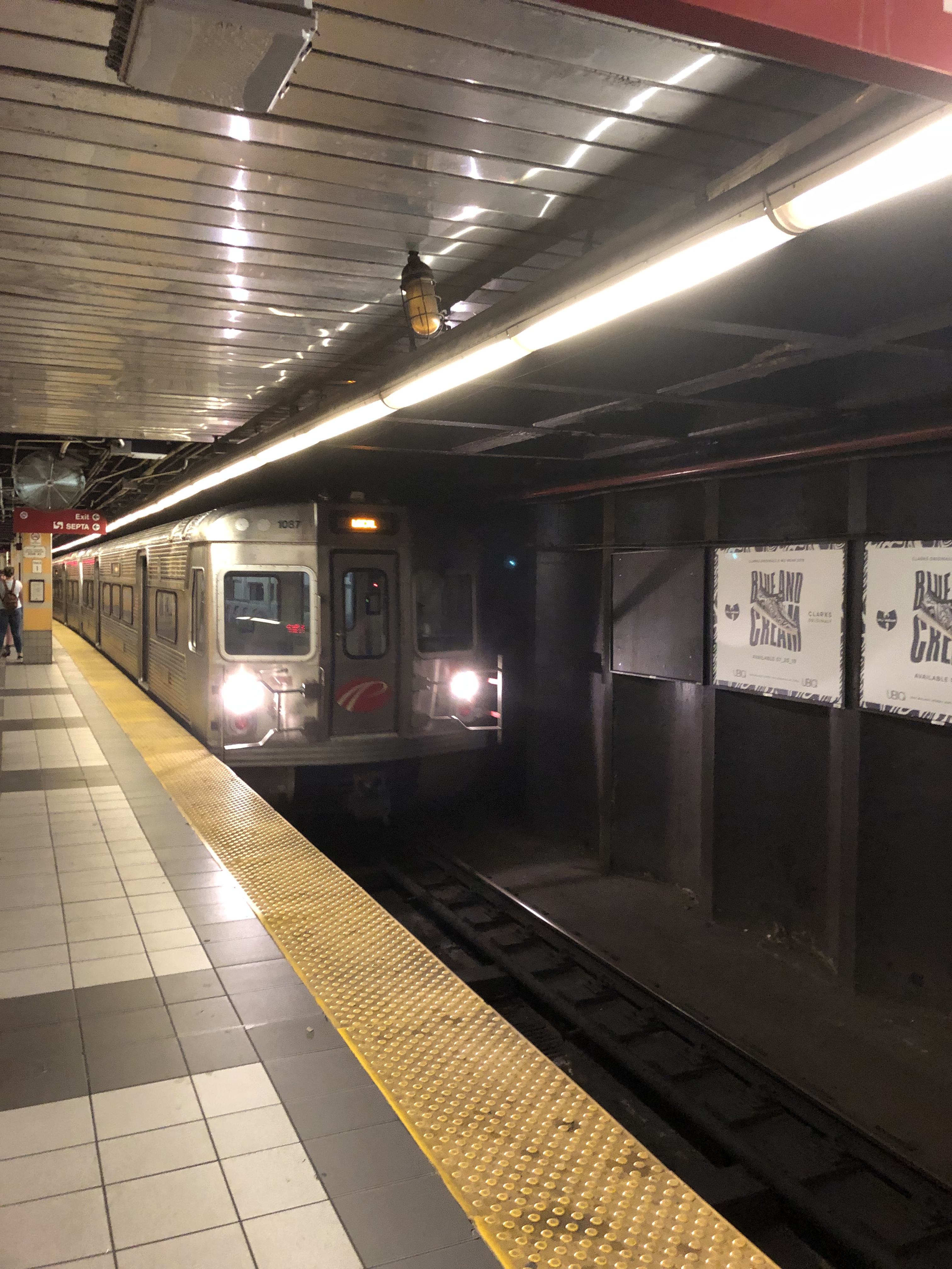 15-16 Locust